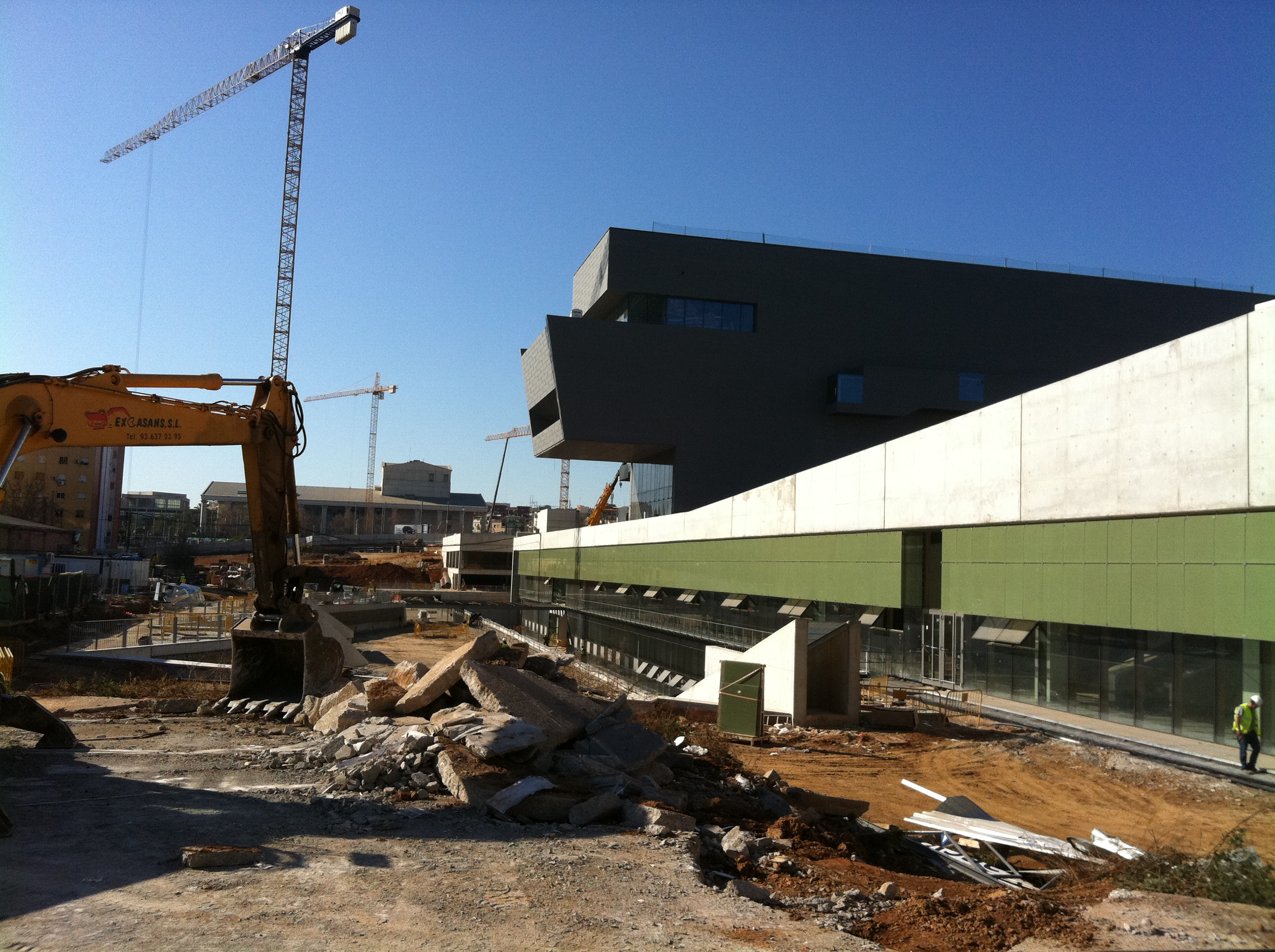 Building process of Disseny Hub Barcelona building. Jan 2012